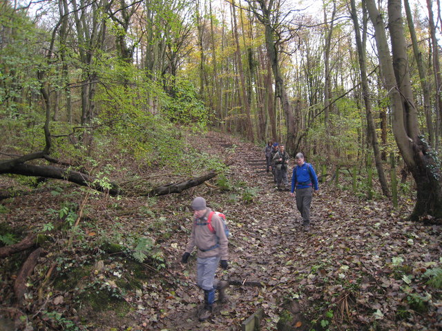 The Path through Butterby Wood The path shown in the picture leads down-hill from Butterby Farm to the eastern bank of the River Wear.